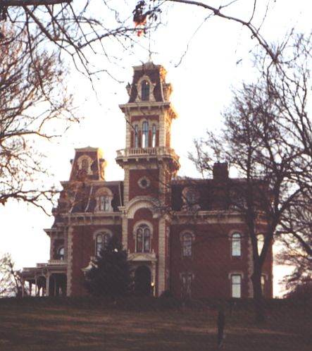 Terrace Hill in Des Moines, photographed by User:Iowahwyman in December 2004. The house serves as the Iowa Governor's mansion.